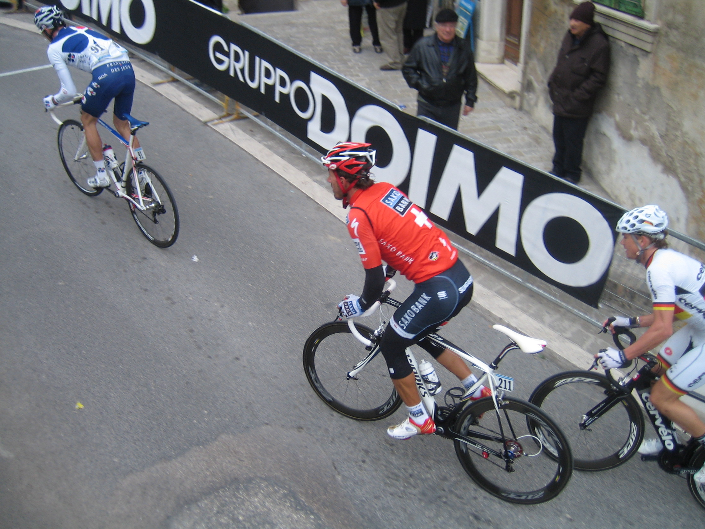 Fabian Cancellara at the stage 6 of the Tirreno-Adriatico in Macerata